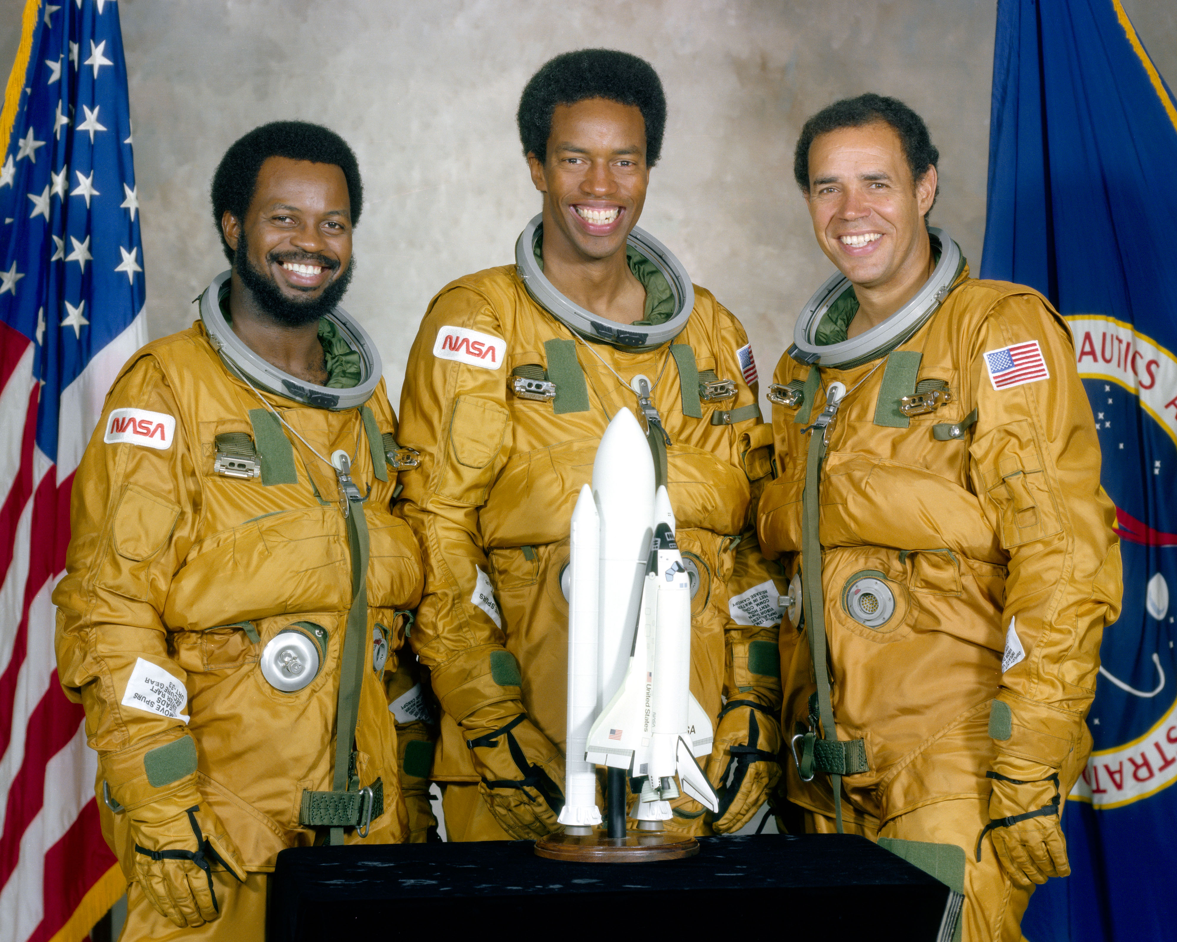 Some of NASA's first African-American astronauts including Ronald McNair, Guion Bluford and Fred Gregory from the class of 1978 selection of astronauts.